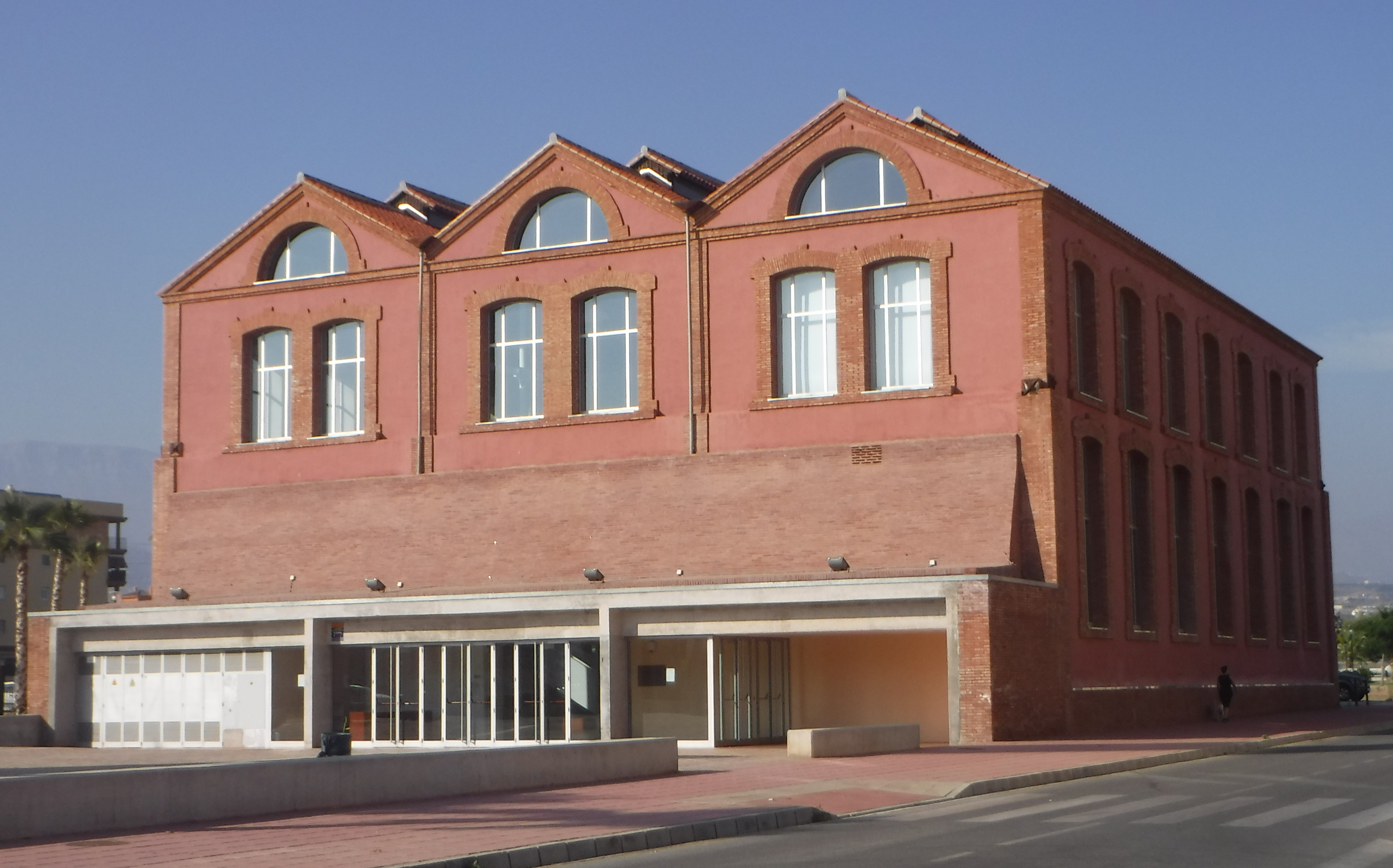 Antiguo ingenio azucarero de Torre del Mar